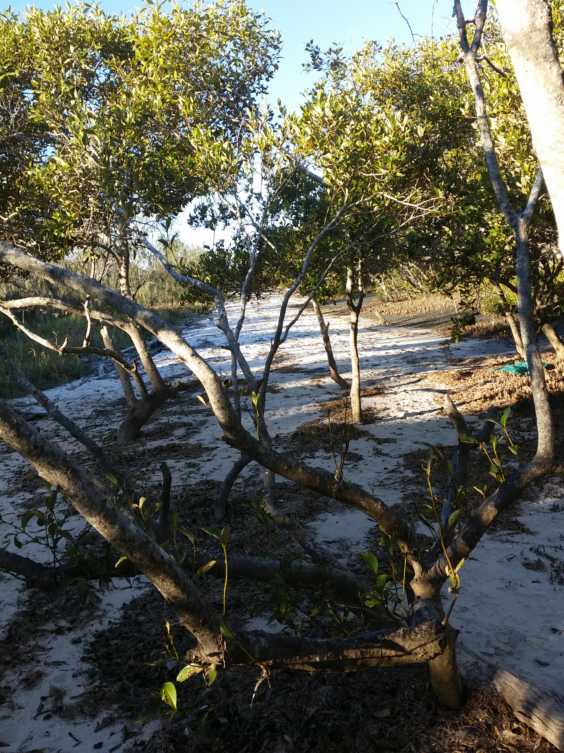 Sandy beach along Beachmere, walk amongst mangroves